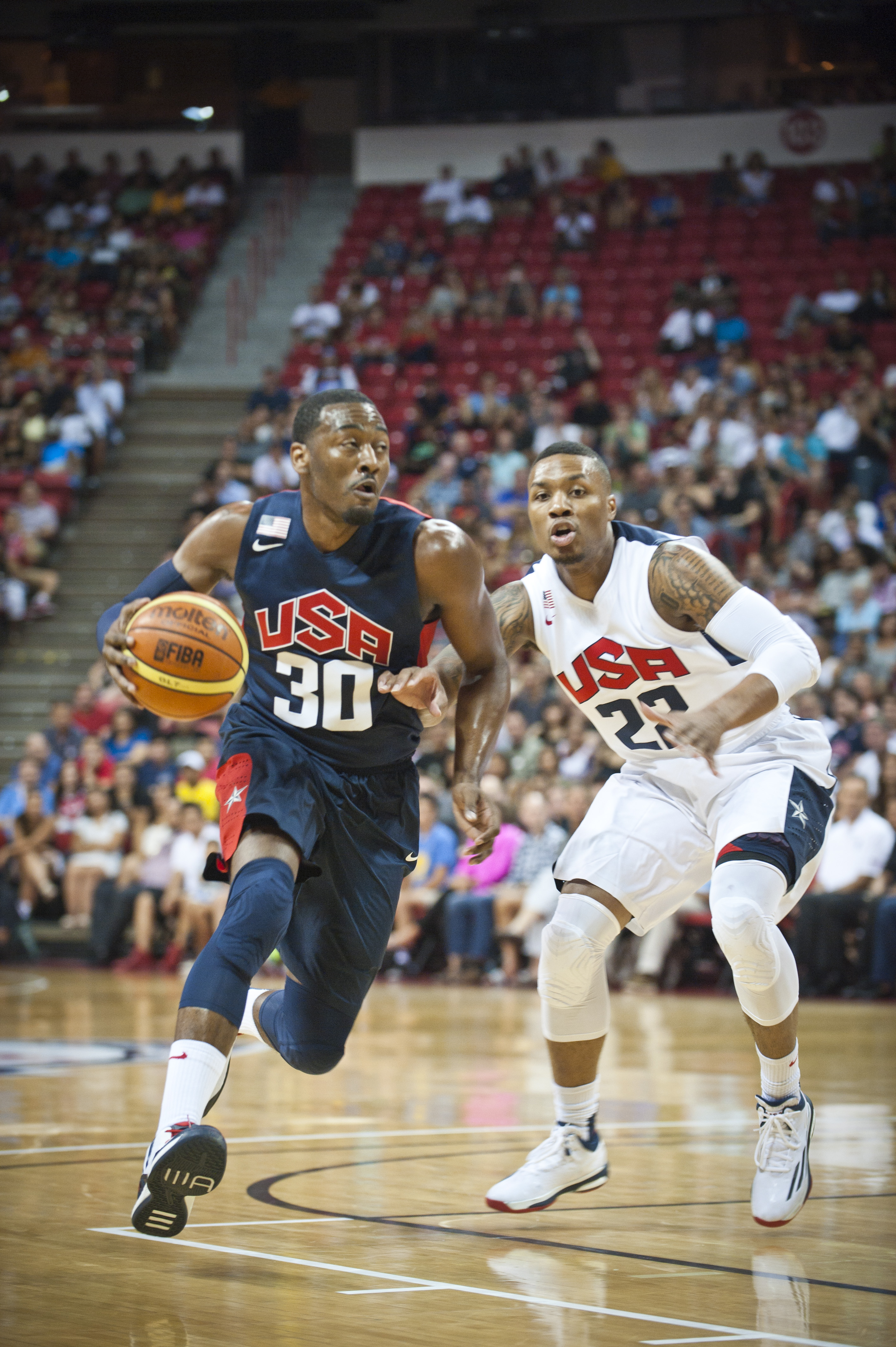 8/1/2014 - USA Basketball Men’s National Team guard John Wall (No. 30), drives past fellow guard and teammate Damian Lillard (No. 22), during an intra-squad scrimmage at the Thomas and Mack Center in Las Vegas, August 1, 2014. Wall and Lillard also play for the Washington Wizards and the Portland Trailblazers, respectively, in the National Basketball Association. (U.S. Air Force photo by Airman 1st Class Thomas Spangler)